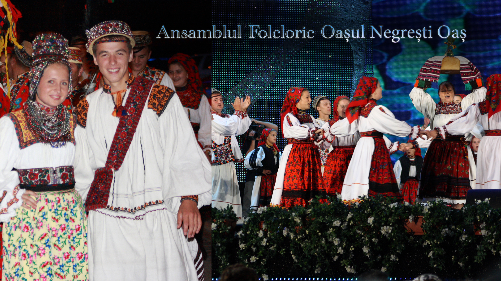 Ansamblul Oașul